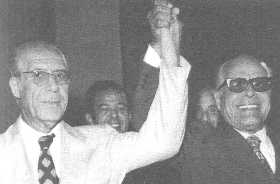 President Bourguiba and Prime Minister Hedi Nouira during Socialist Destourian Party congress